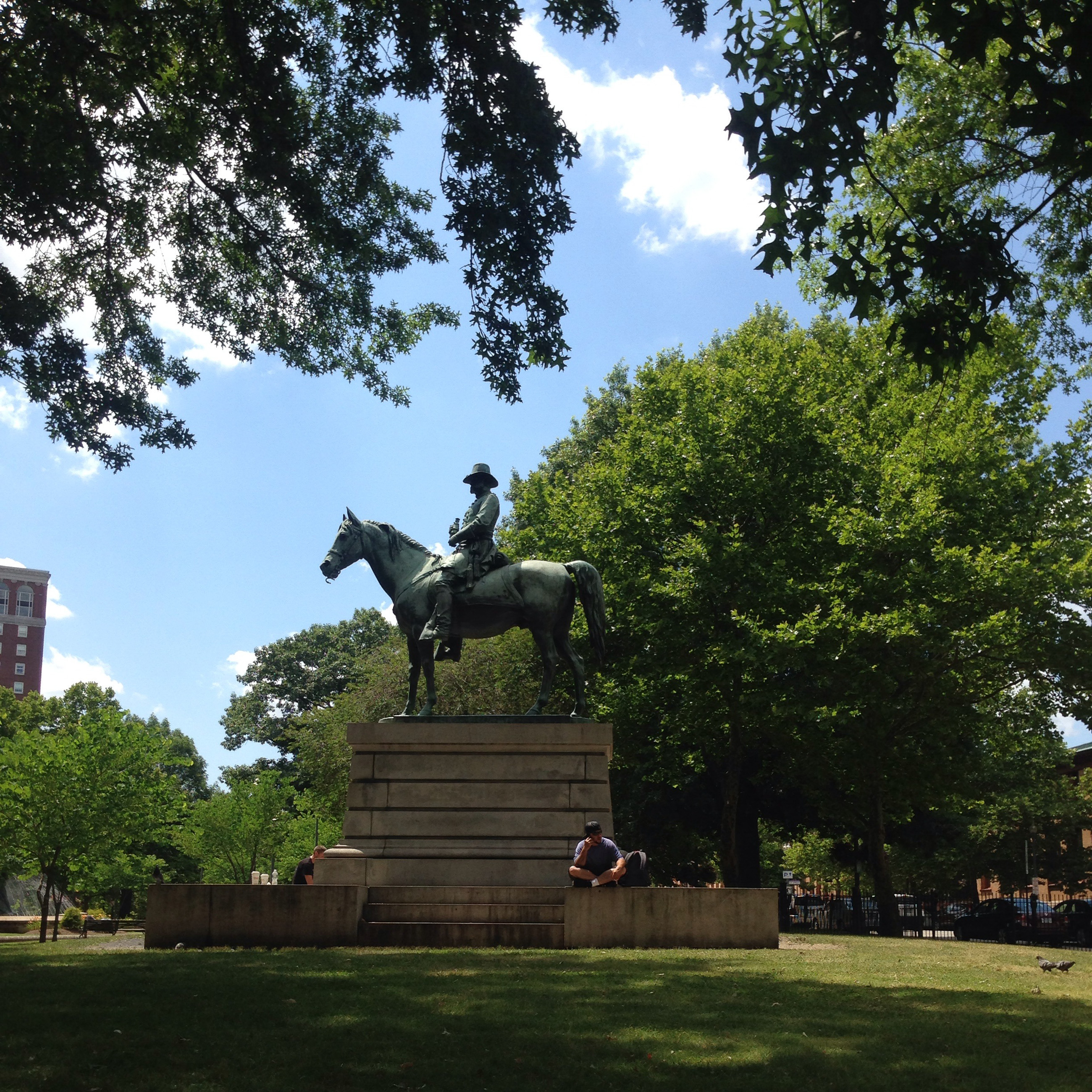 Burnside Park, Providence, RI.